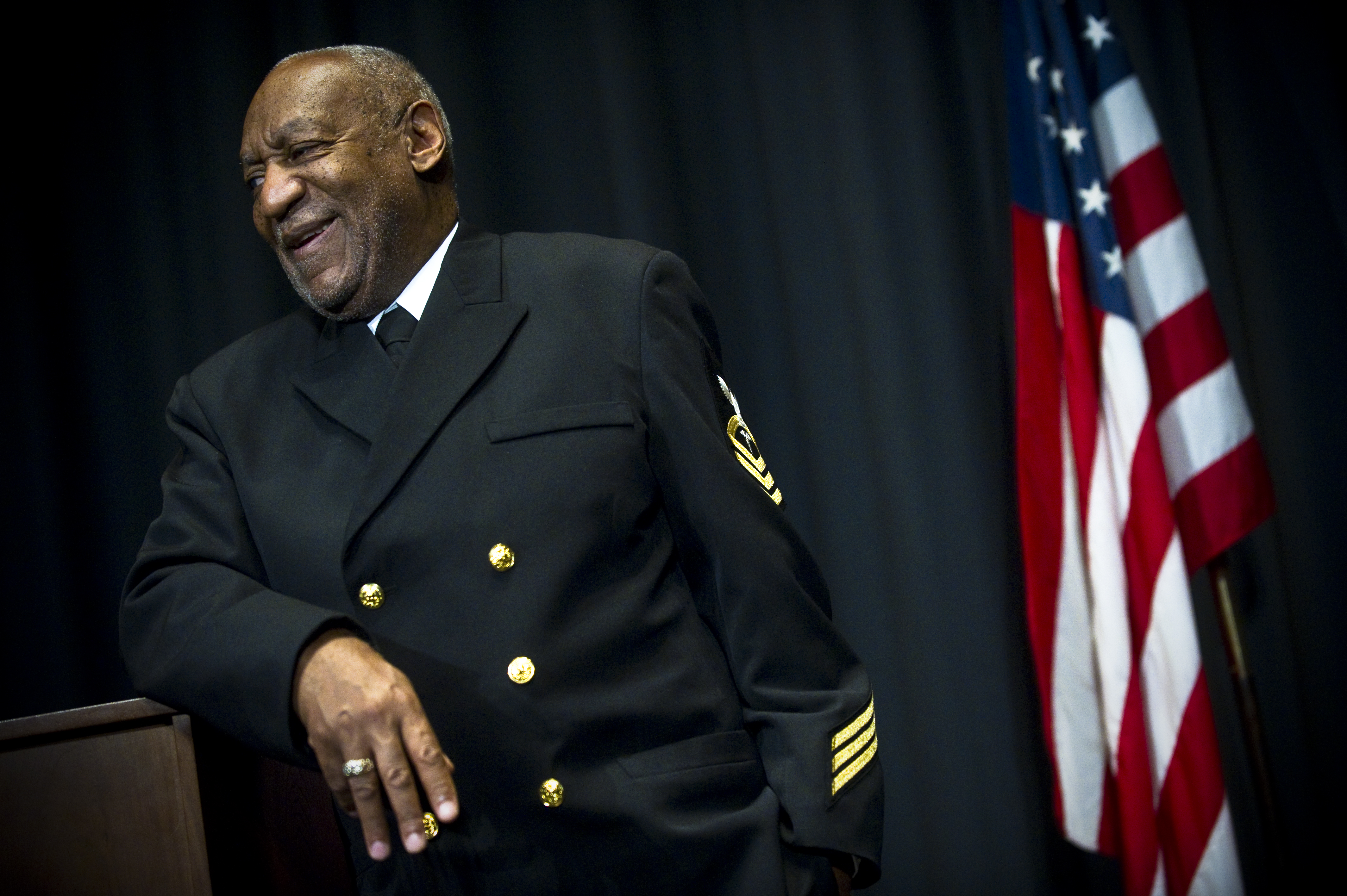 WASHINGTON (Feb. 17, 2011) Honorary Chief Hospital Corpsman Bill Cosby delivers remarks during his pinning ceremony at the U.S. Navy Memorial in Washington, D.C. (U.S. Navy photo by Mass Communication Specialist 2nd Class Kevin S. O'Brien/Released)